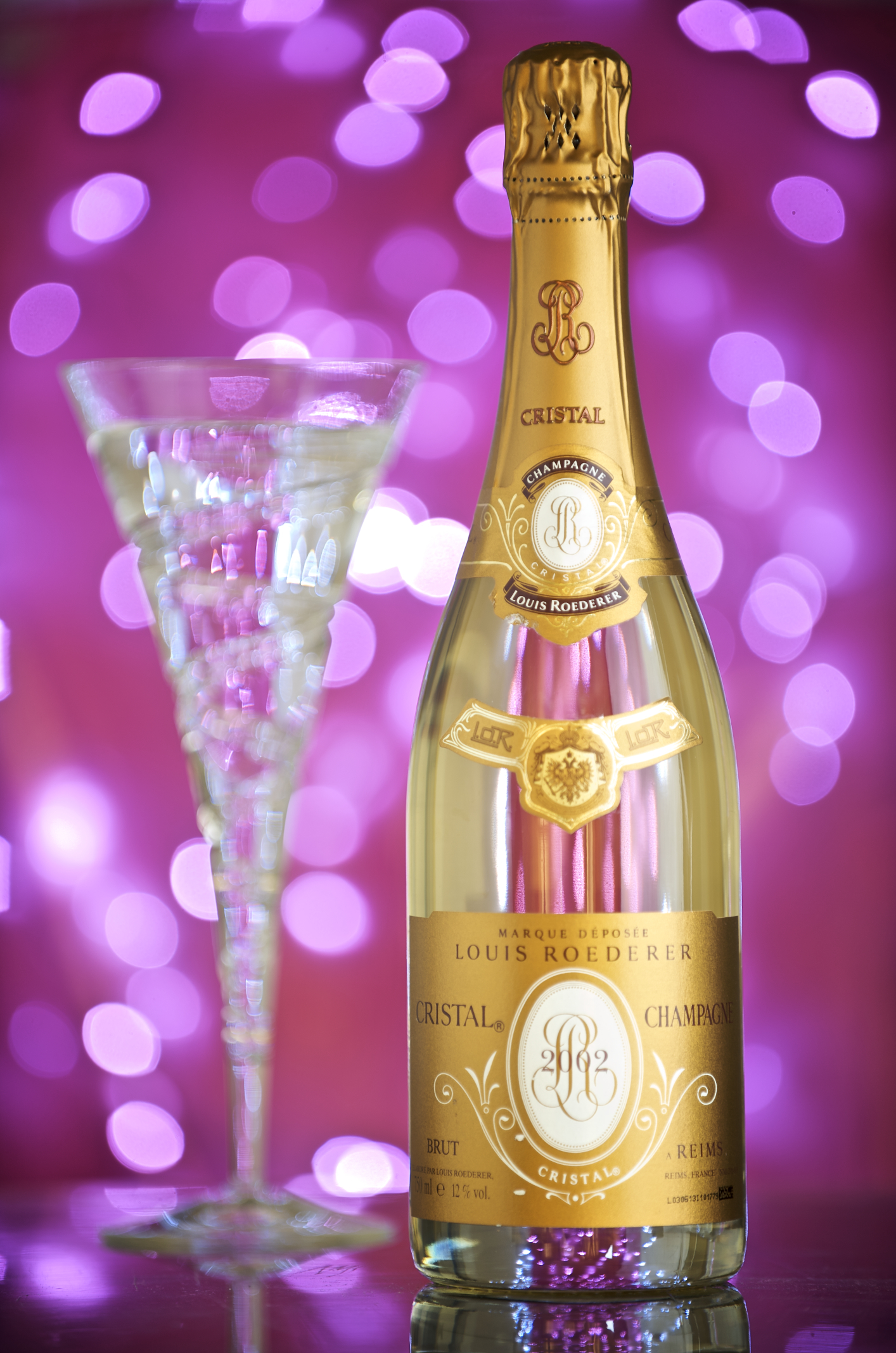 Cristal Champagne and Wedgewood